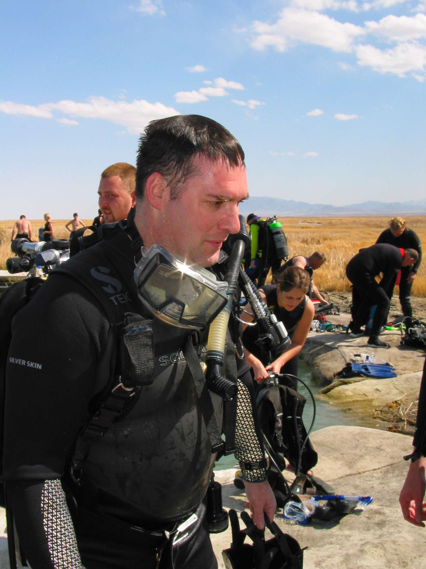 Divers at Blue Lake, Utah This photo was taken at Blue Lake on April 11, 2003 by Shawn Willden.